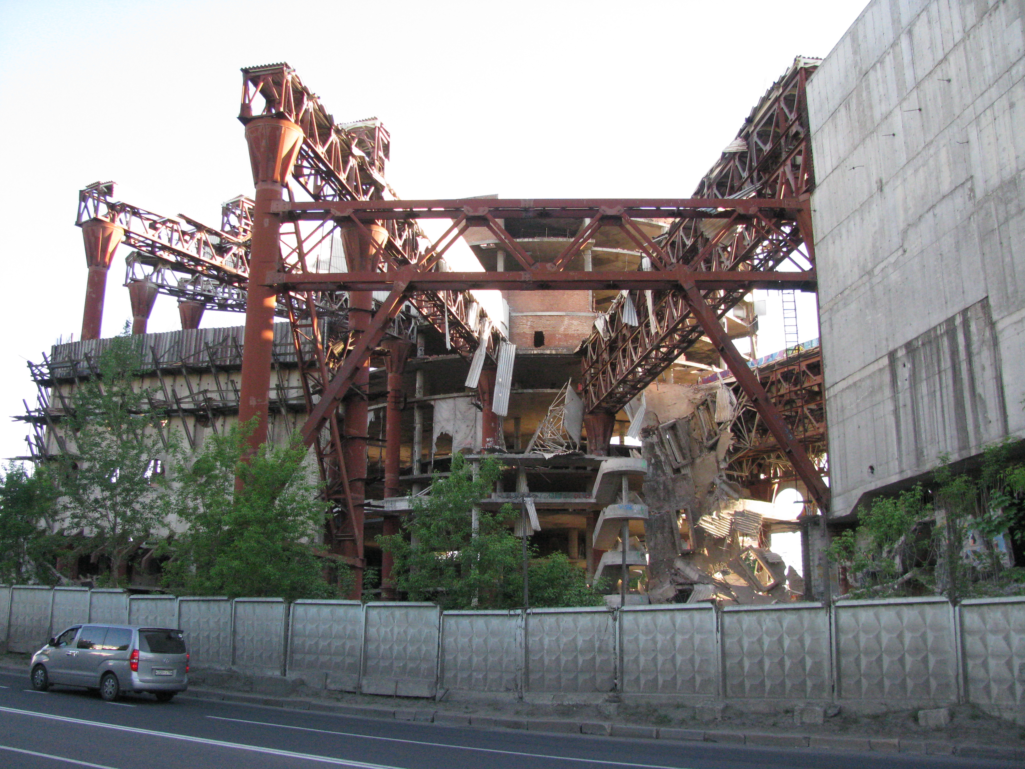 Destroying of Aquadrom waterpark in Moscow